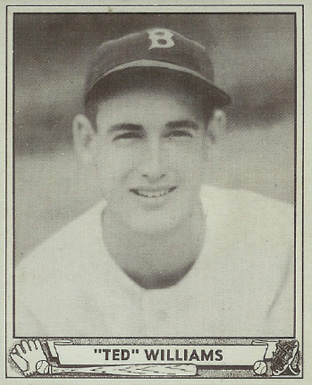 Boston Red Sox left fielder & Hall of Famer Ted Williams.